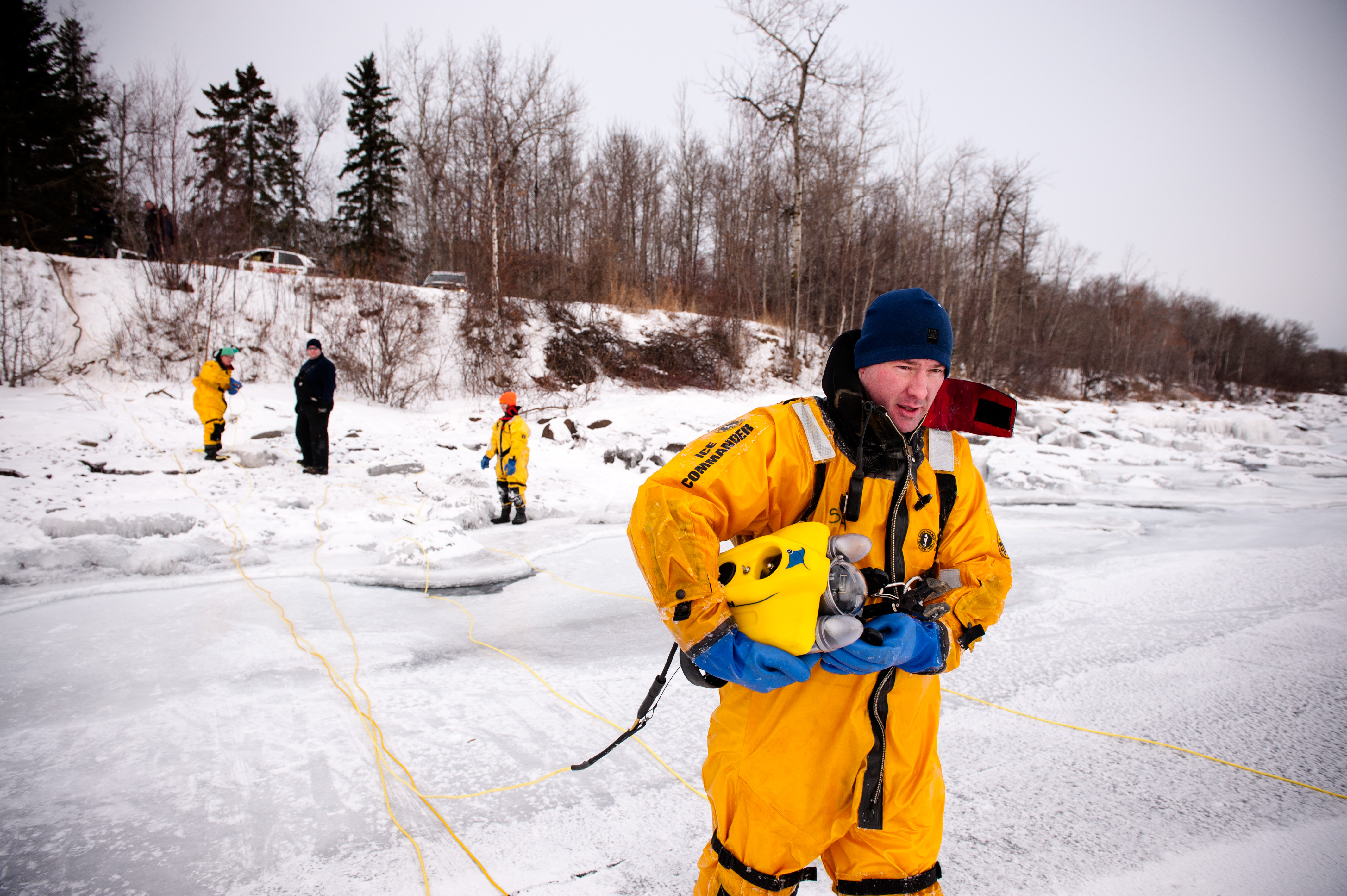 A St. Louis County Sheriff's Rescue Squad member holds a VideoRay Pro 4 ROV during a drowning victim search